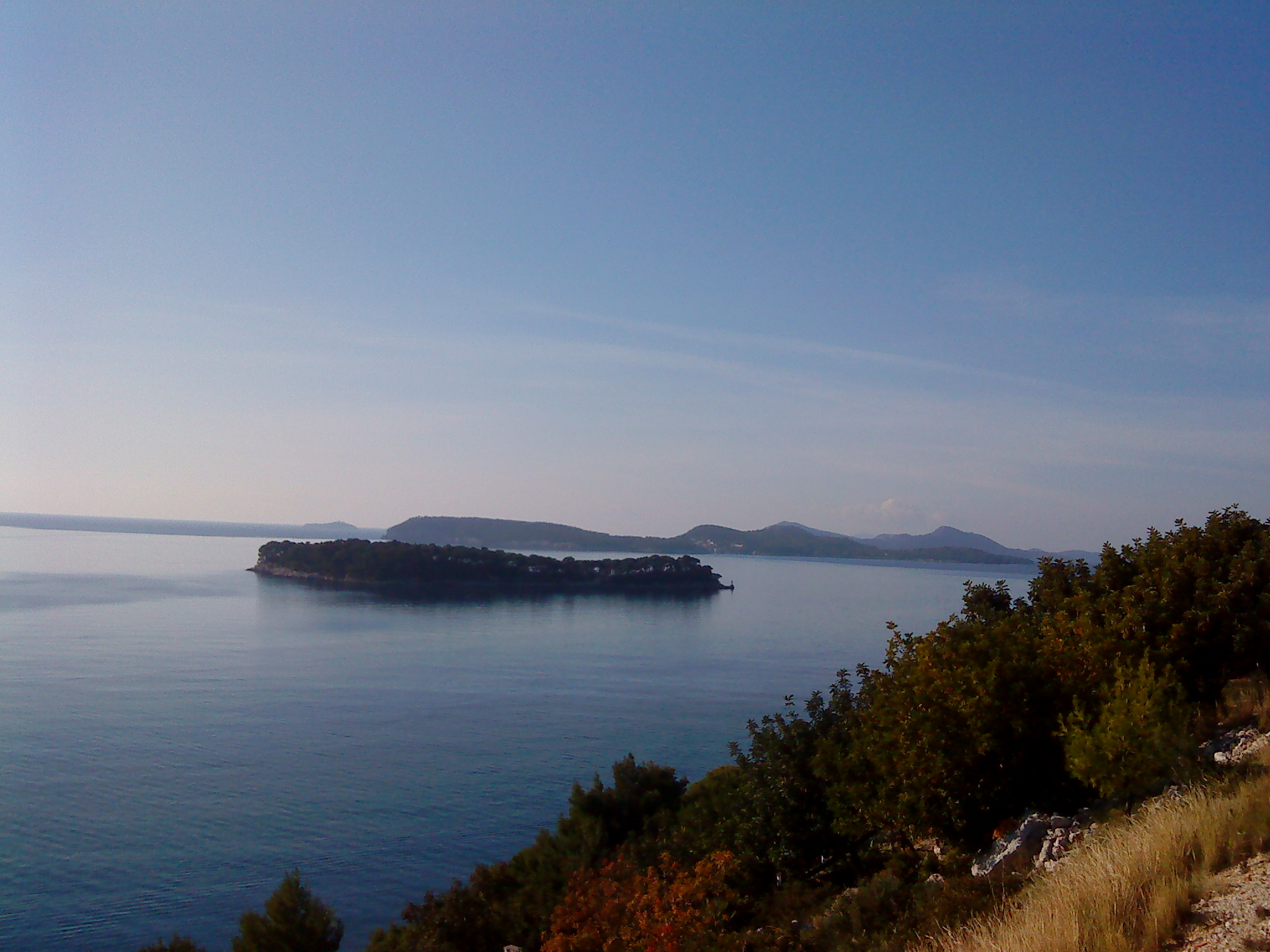 Island of Daksa